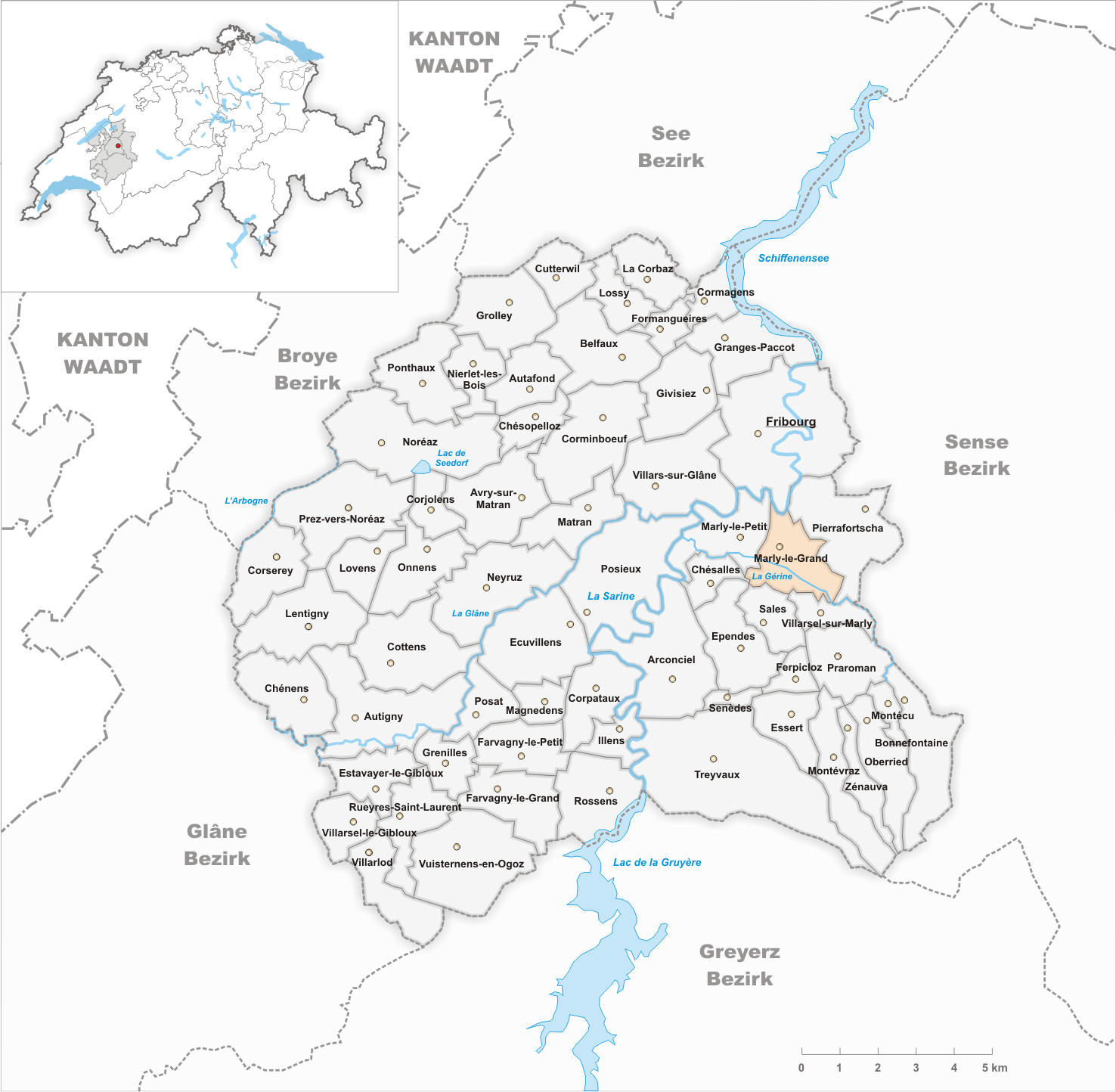 Municipality Marly-le-Grand Artist: Tschubby